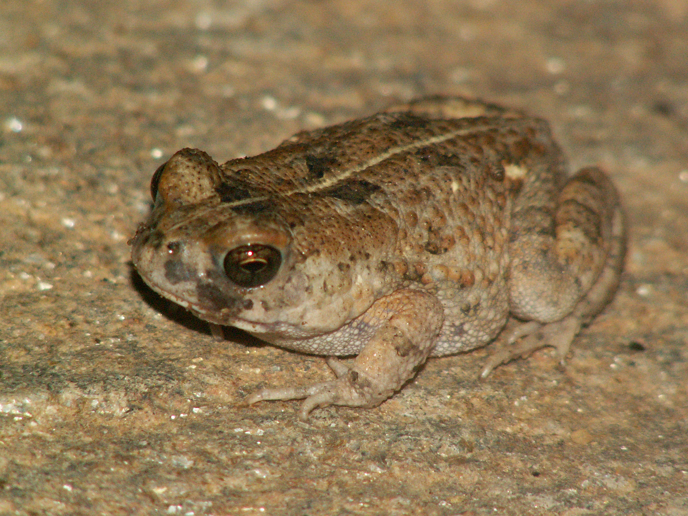 Bufo pusilus. Note the light band between the eyes followed by dark band/spots, small black dots on the tip of each ward. source Google Books, Amphibians of Malawi by Margaret M. Stewart. Notworthy is the resemblance with the natterjack toad (Bufo calamita or Epidalea calamita) even exhibiting the same bursts of speed. Siavonga, Zambia